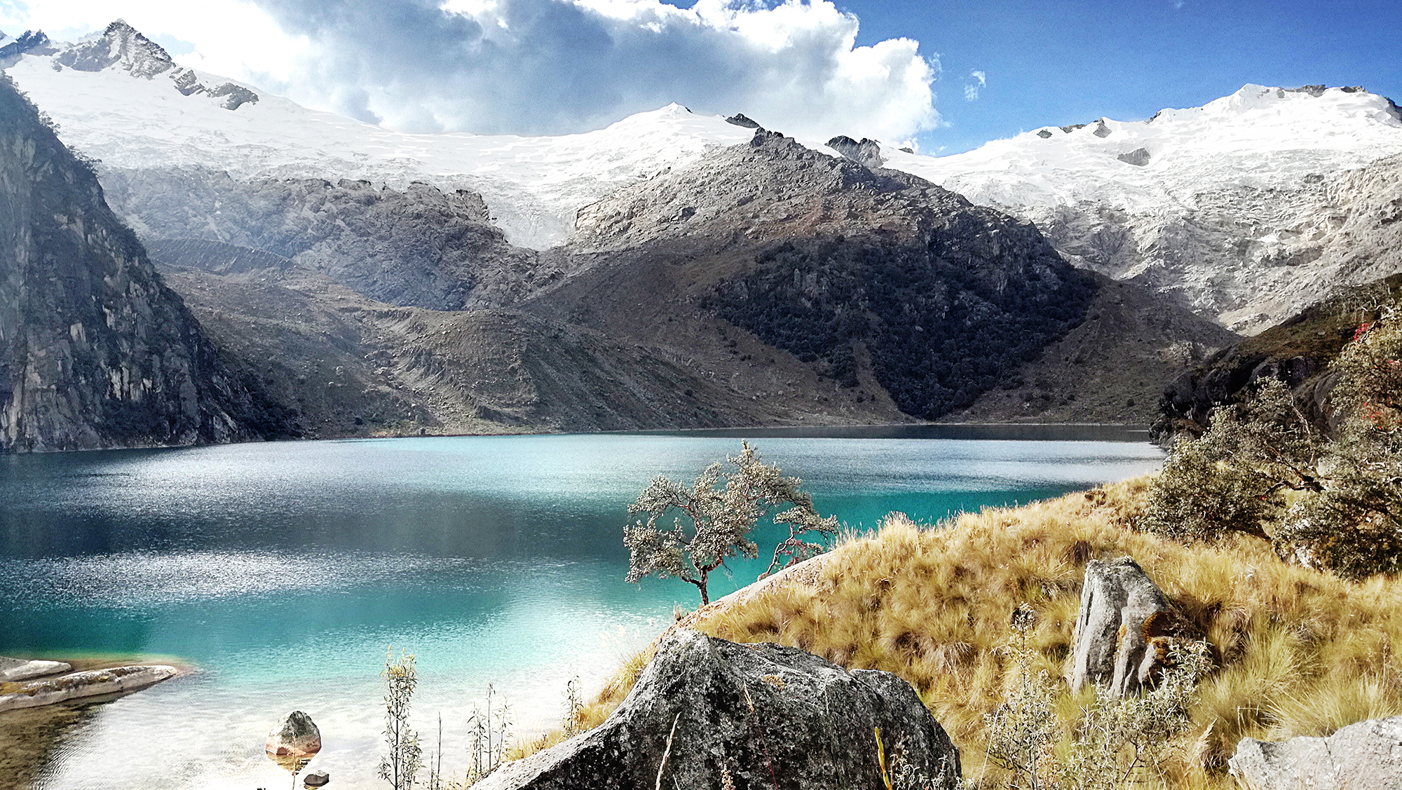 Laguna Libron desde su orilla este.